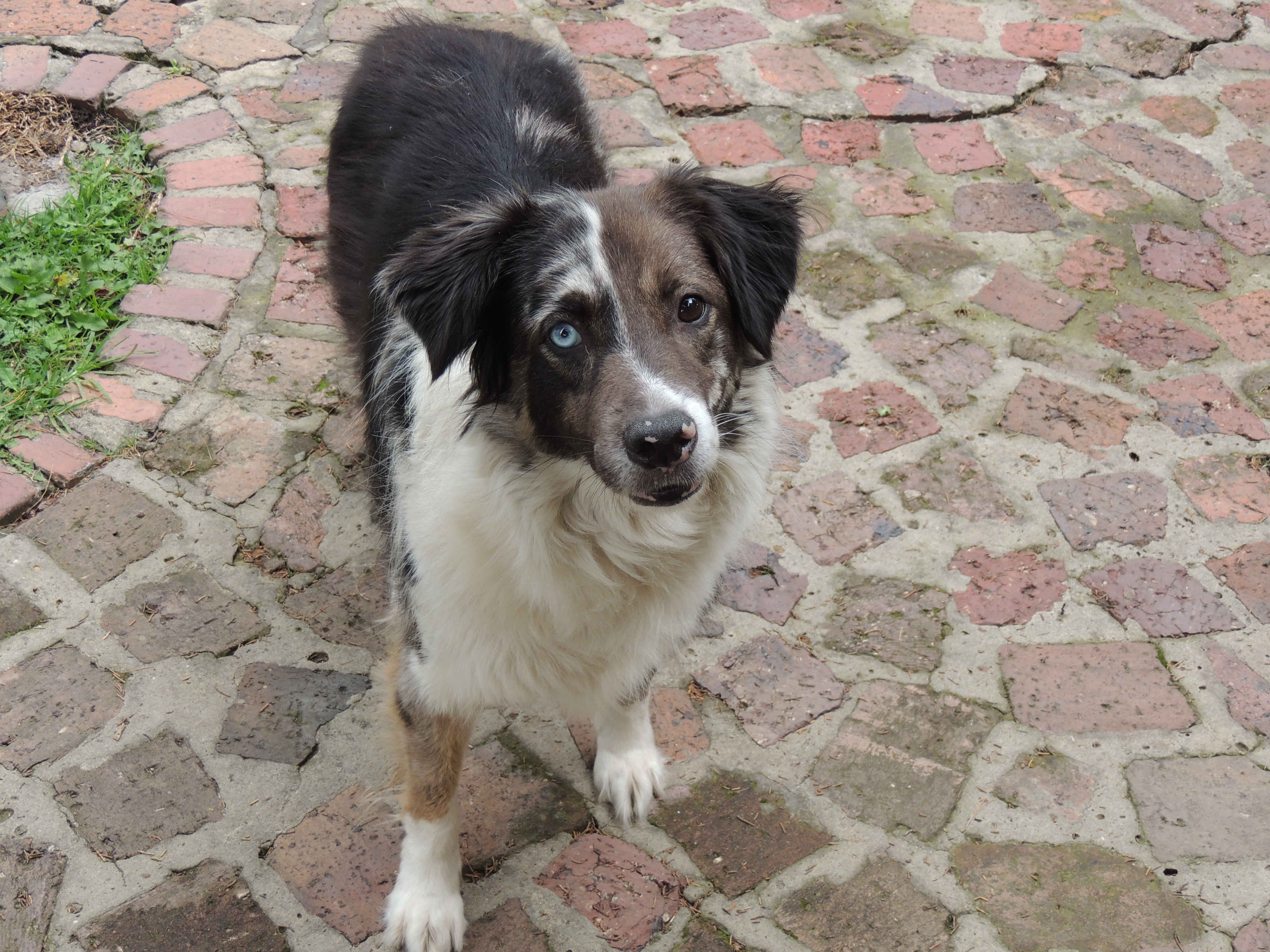 Border collie - australian shepherd 6-year-old mongrel bitch, with heterochromia, looking forward. Pet.